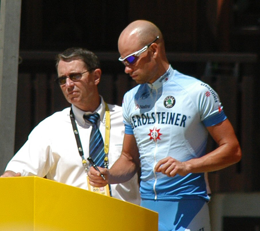 Stefan Schumacher at the start of stage 8 in Le Grand Bornand, Tour de France 2007.